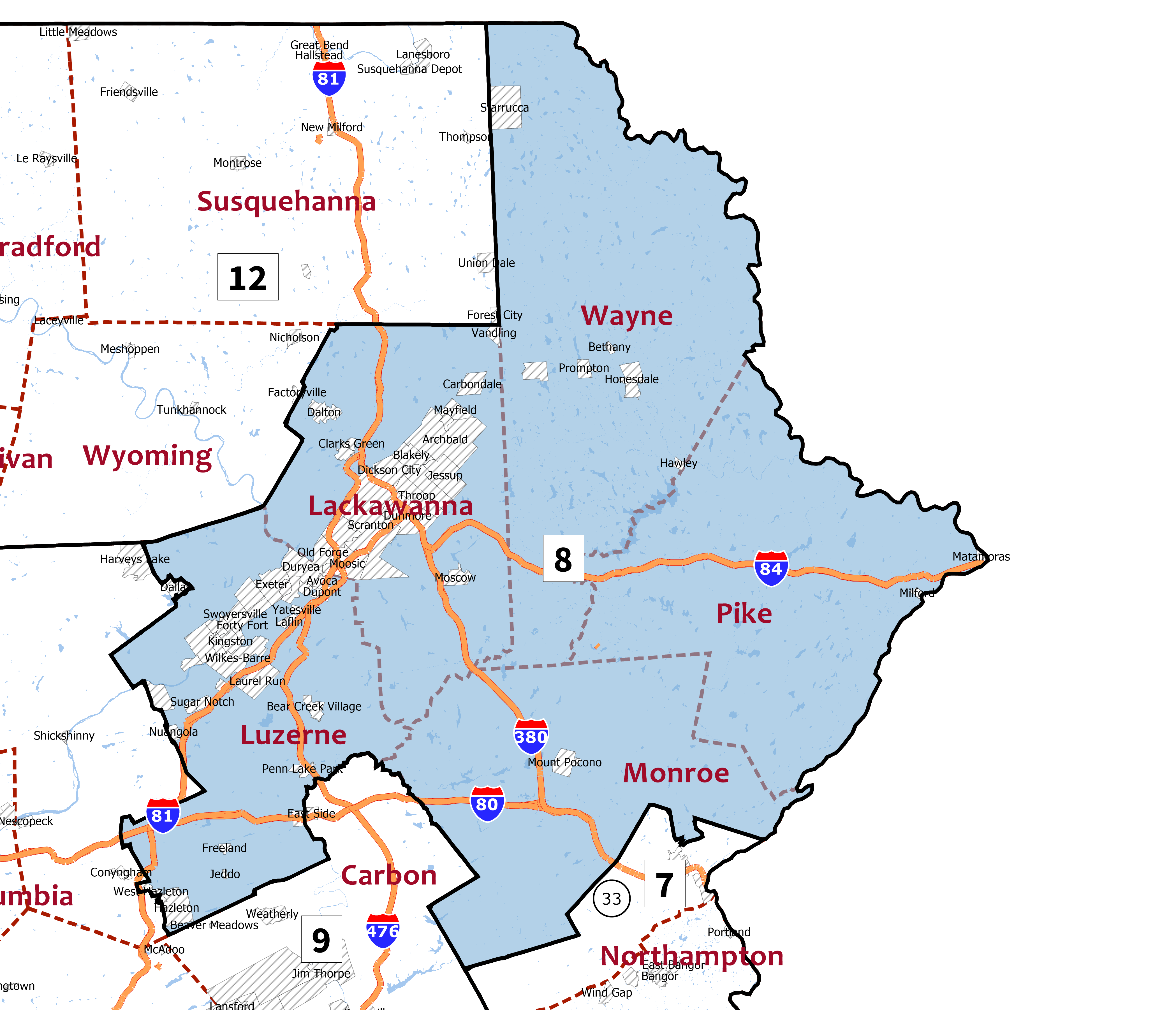 Pennsylvania congressional district 8